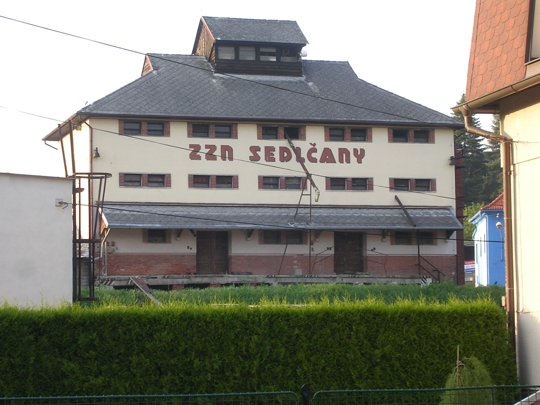 Sedlčany, Příbram District, Central Bohemian Region, the Czech Republic.